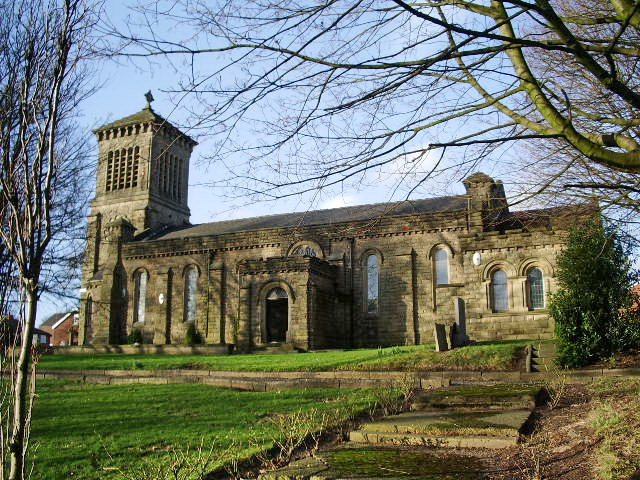 St John the Baptist parish church, Pendlebury, Greater Manchester, seen from the south